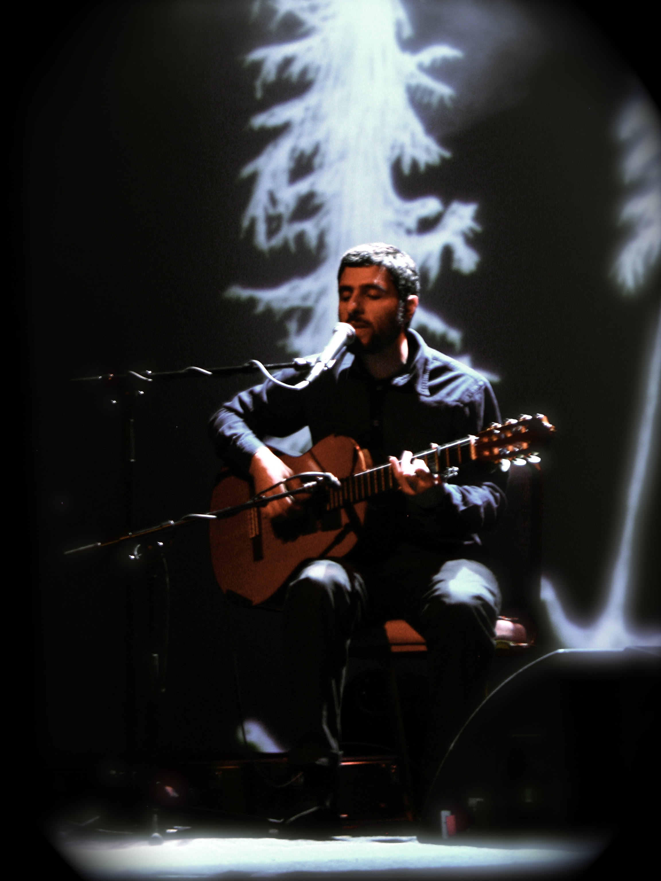 José González performing live at O2 Shepherds Bush Empire in London, United Kingdom